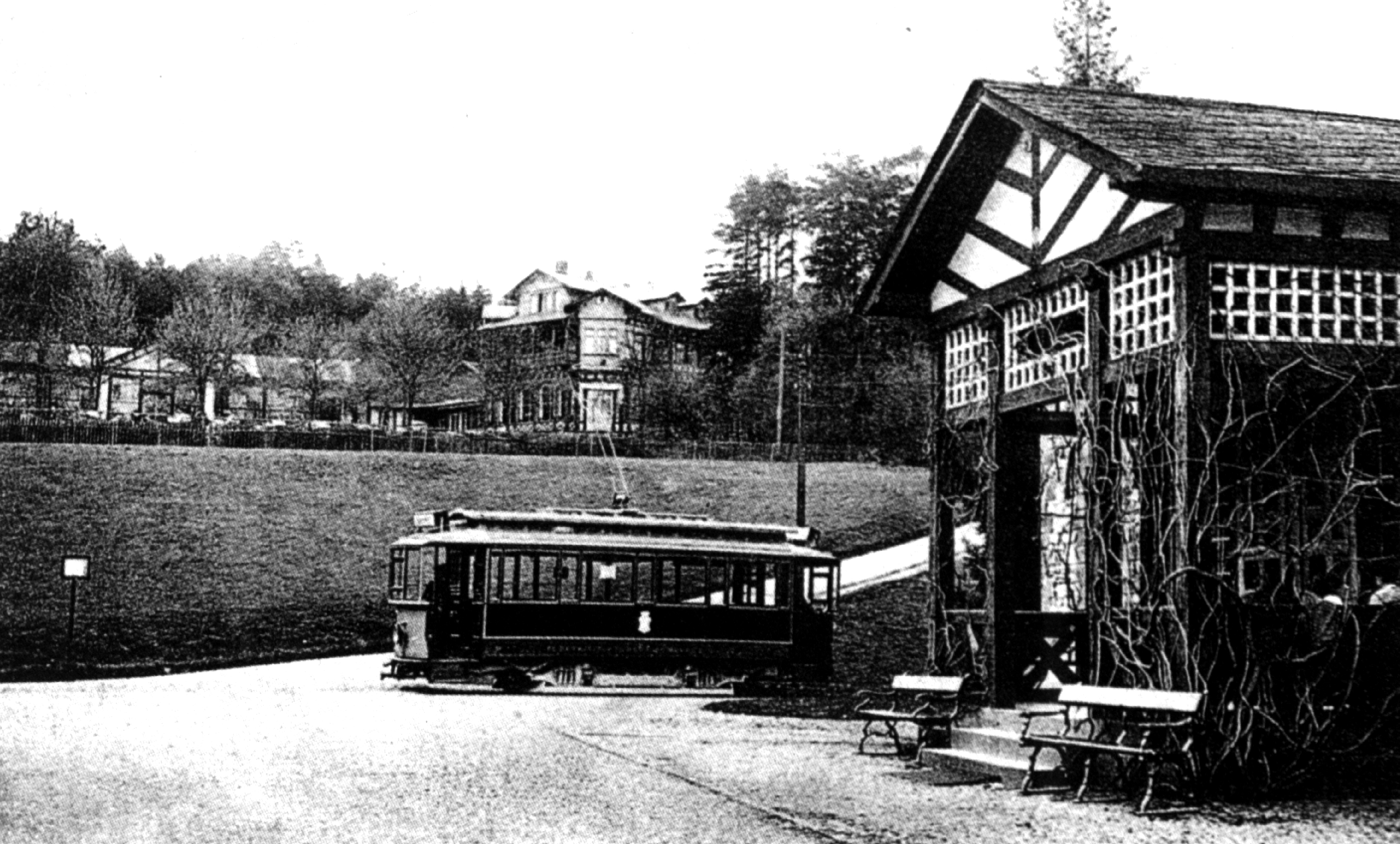 Tram at the Roman fort Saalburg near Bad Homburg, Germany, 1900